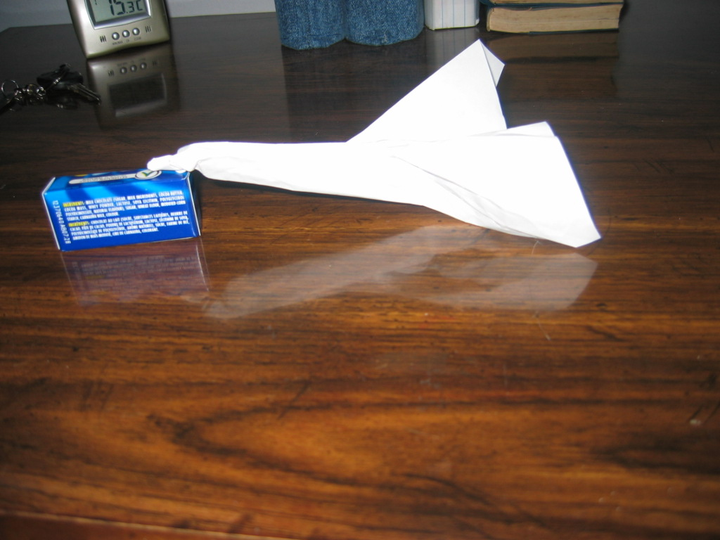 An asymmetrical paper airplane created from scratch, using 8.5 x 11" paper.